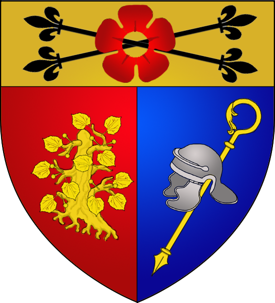 Coat of arms of the municipality of Niederanven, Luxembourg